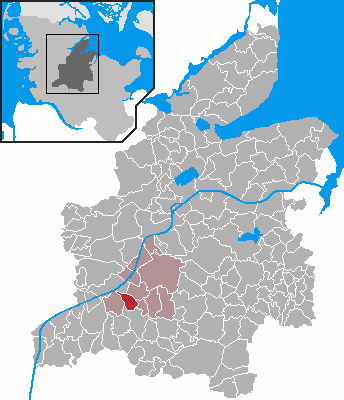 Locator maps of municipalities in Schleswig-Holstein - District Rendsburg-Eckernförde